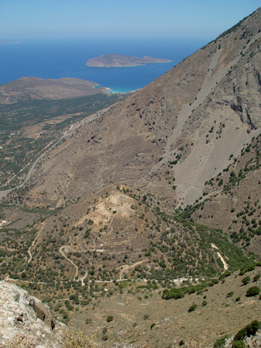 Aerial view of the Archaic site of Azoria in east Crete.